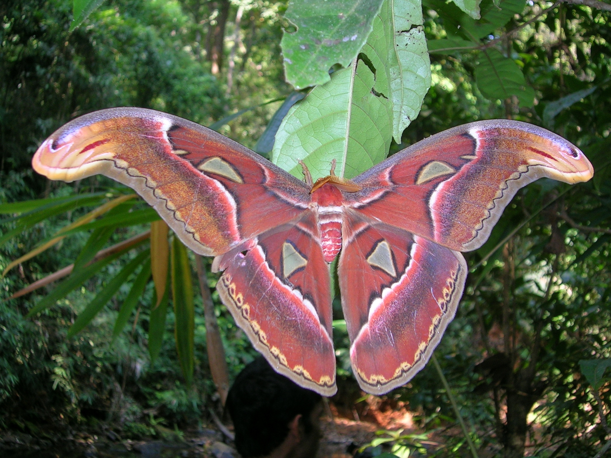 Attacus taprobanis, Wynaad, Kerala